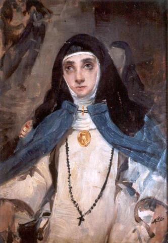 Venerable María Jesús de Ágreda, conceptionist nun of 17th cent.